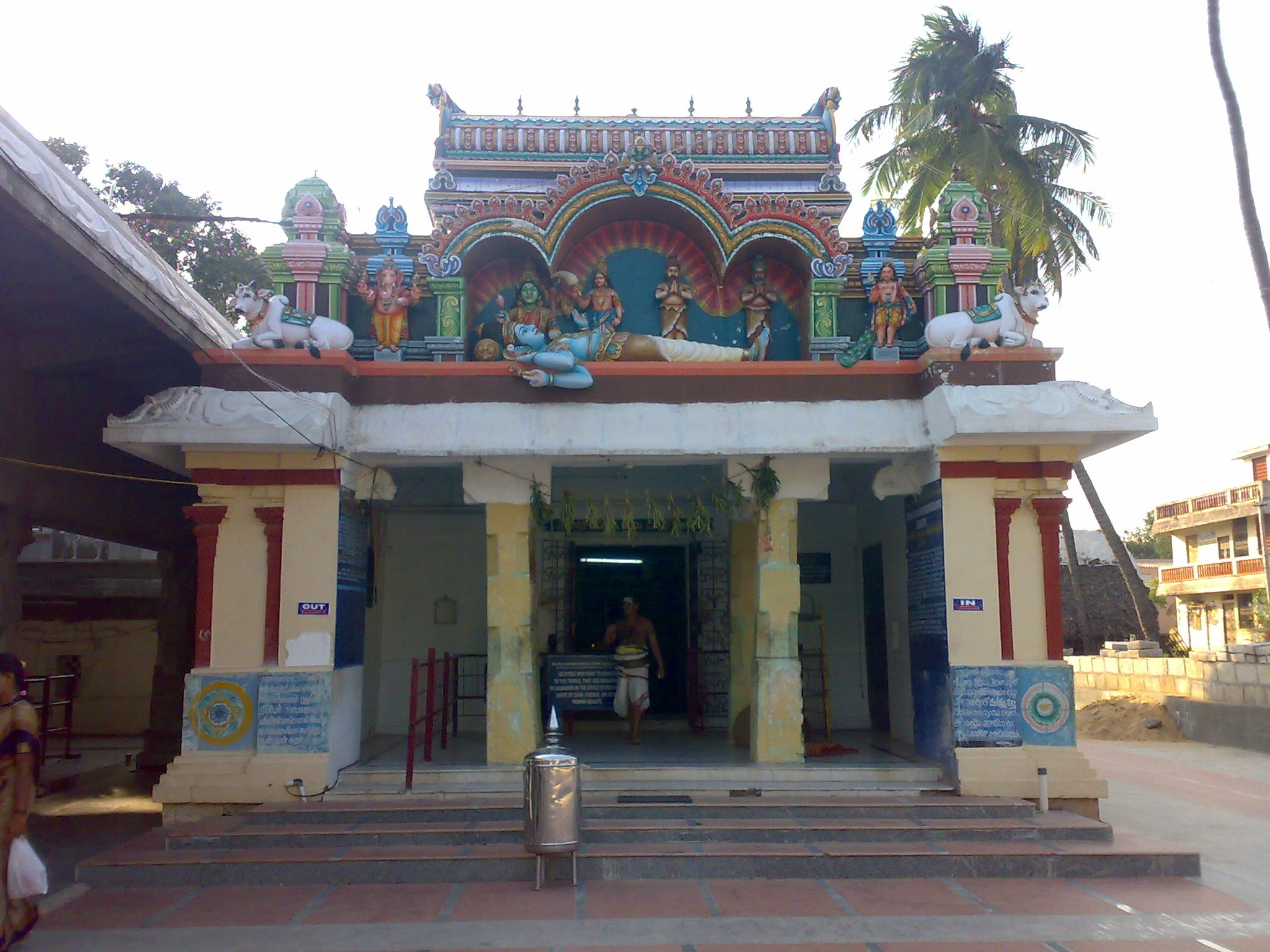 A temple in the premises of Pallikondeswara group of temples, Surutupalli, Chittoor district, Andhra Pradesh. This temple is right beside the Road from Chennai to Tirupati.